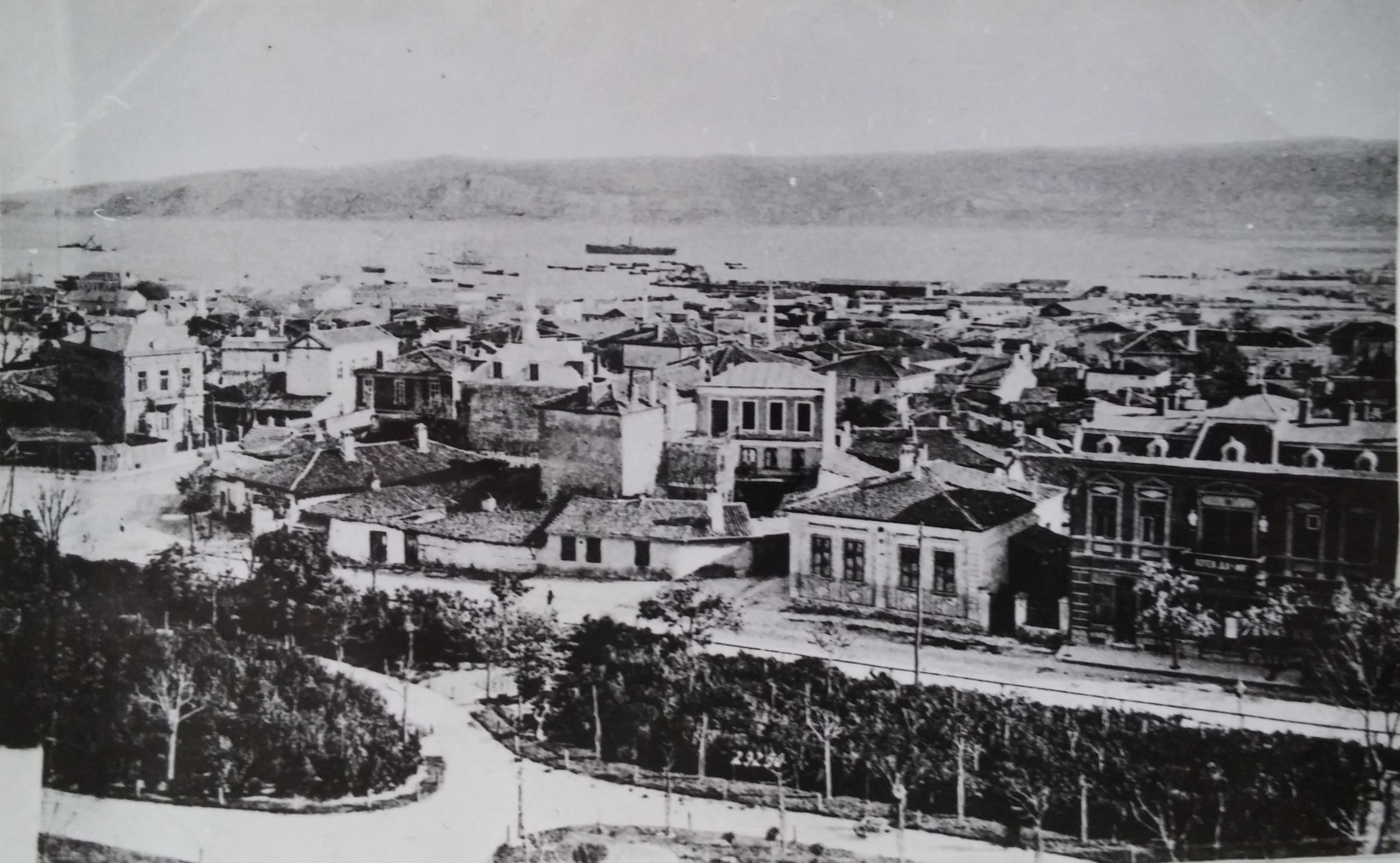 Panoramic photos of Varna after the Liberation.